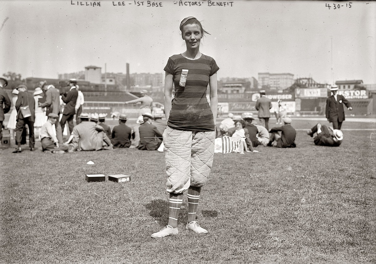 Lillian Lee, American actress, playing first base at the Actor's Benefit for Crippled Children